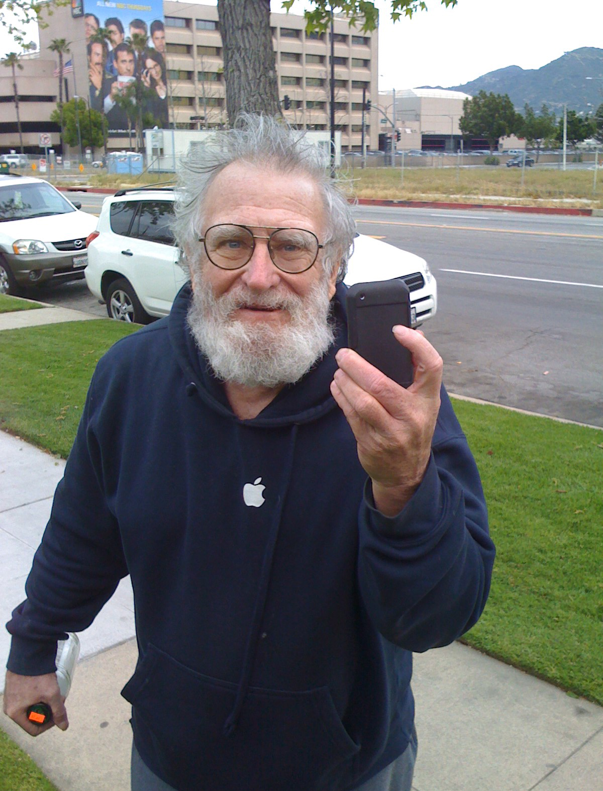 'Captain Crunch' outside his home in Burbank